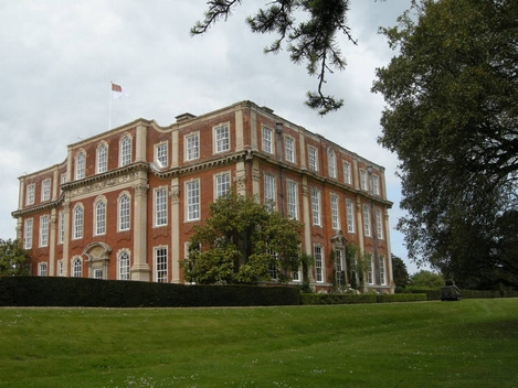 Chicheley hall